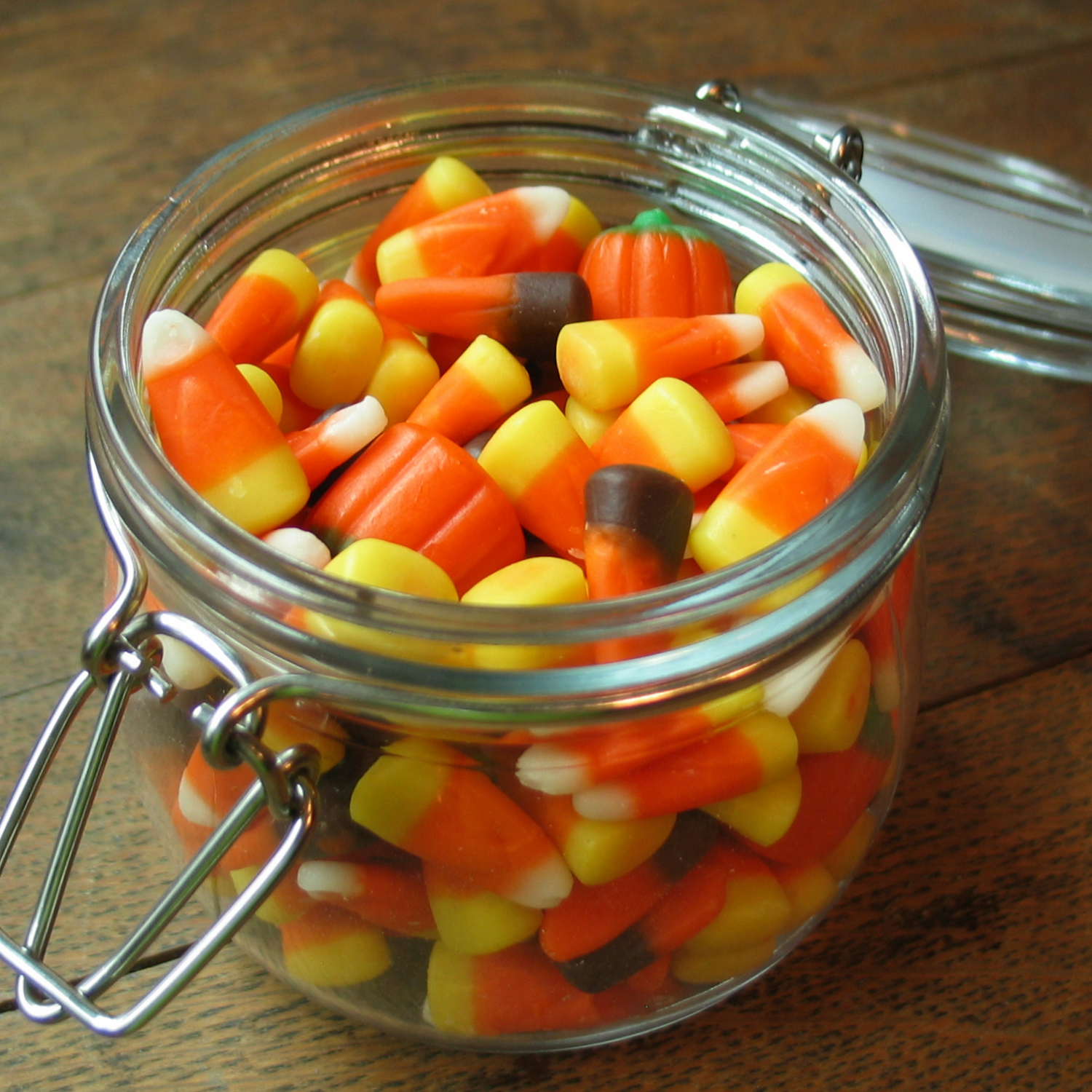 Candy corn in a jar